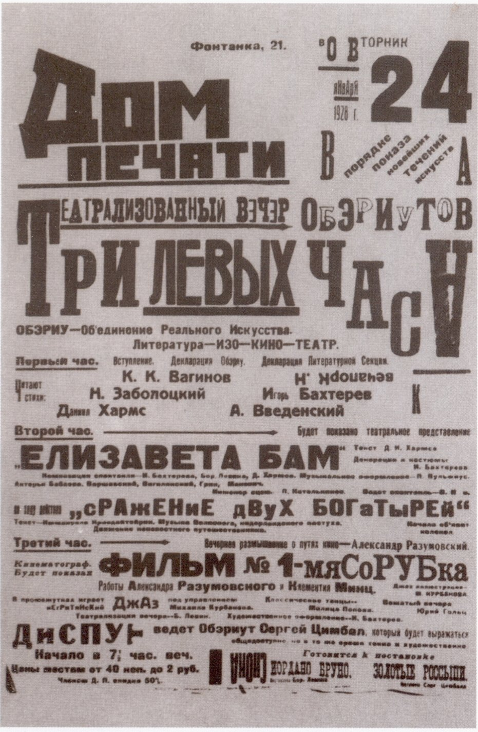 Poster to the OBERIU's poet event "Three Left Hours" (24/01/1928)